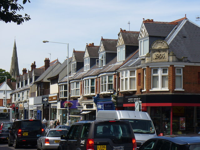 High Street, Weybridge Edwardian terrace (1904) of flats and offices above street level shops. The busy street funnels traffic to the bridge across the Wey. In the distance is the spire of the parish church, St James.